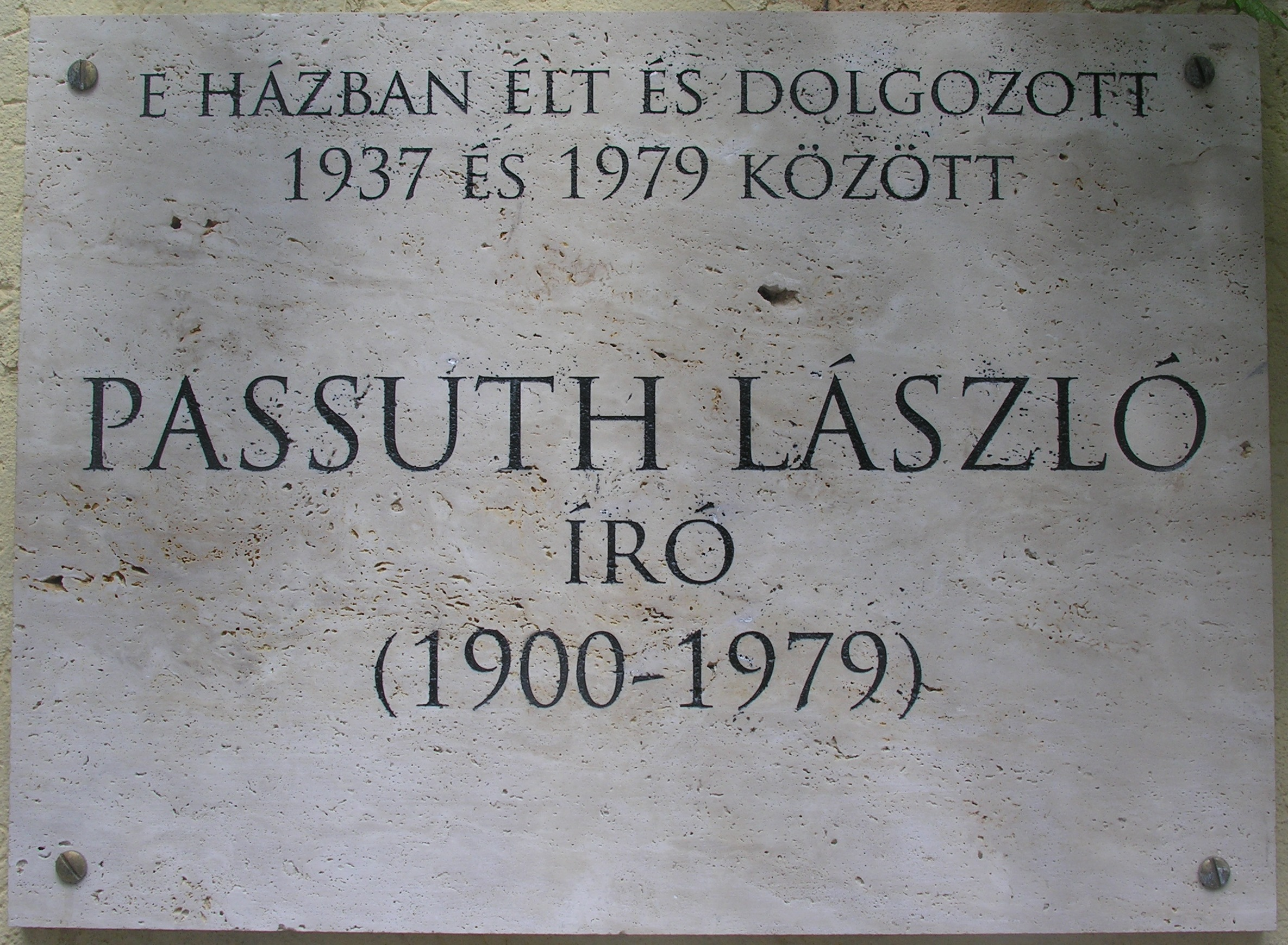 Commemorative plaque of László Passuth in Budapest District II, Rózsahegy Street 1/a.